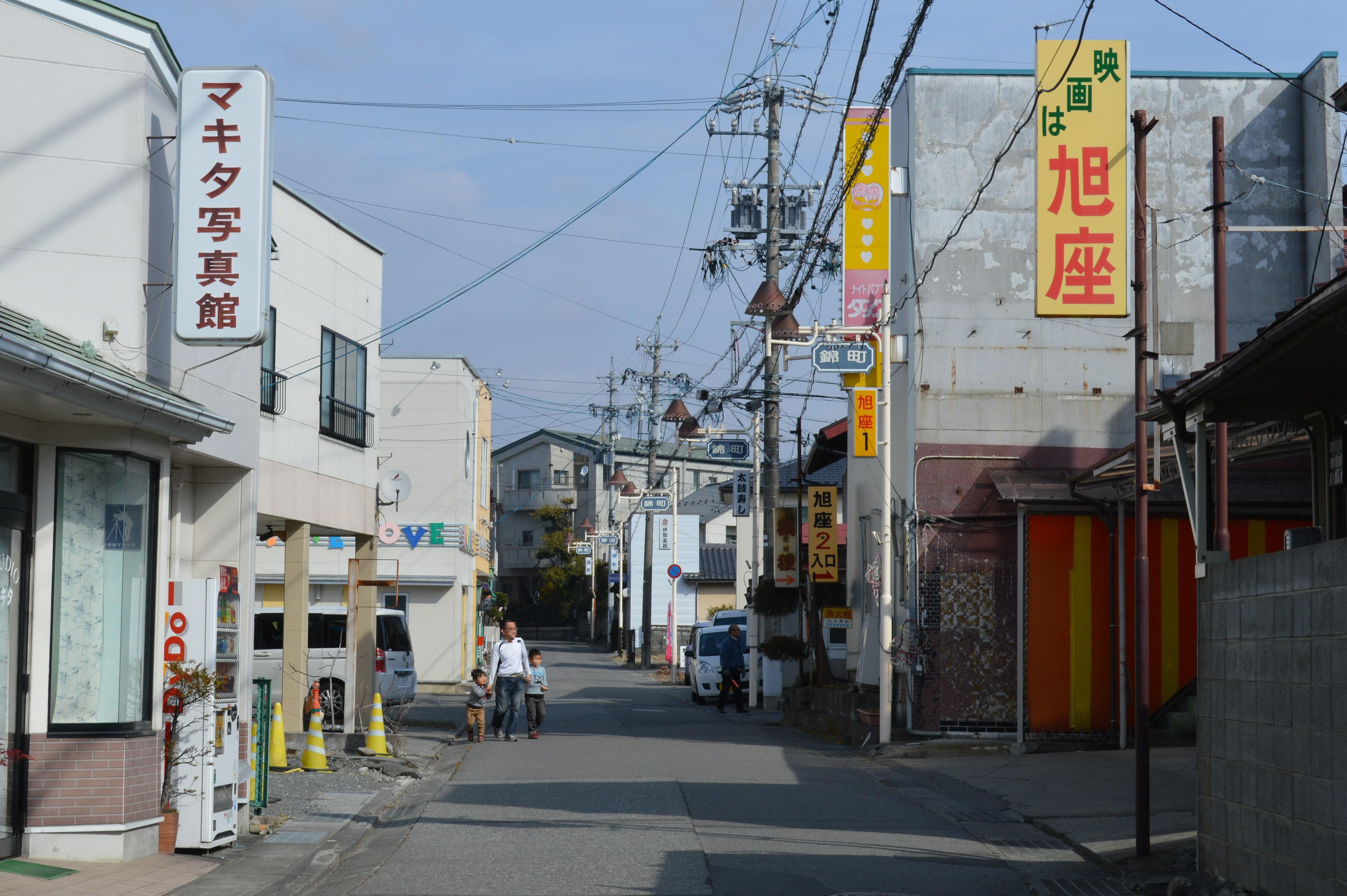 Ina Asahi-za is a movie theater in Ina city, Nagano prefecture, Japan.